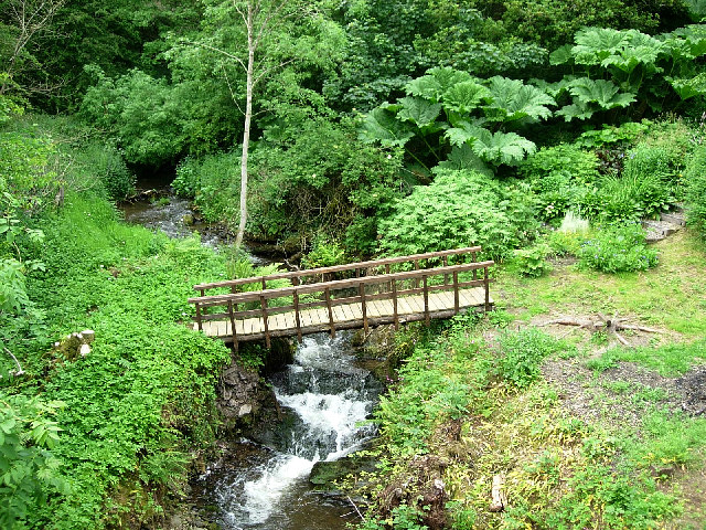 Fowlis Den. The view is taken from the minor road as it crosses Fowlis Den, drained by the Fowlis Burn